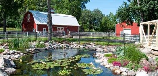 A picture of Sibley park in Mankato, MN